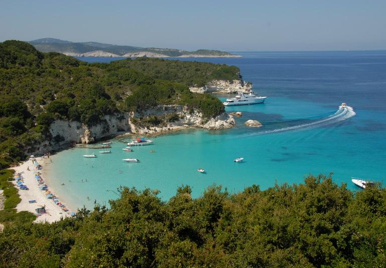 Voutoumi beach, Antipaxoi, Greek island